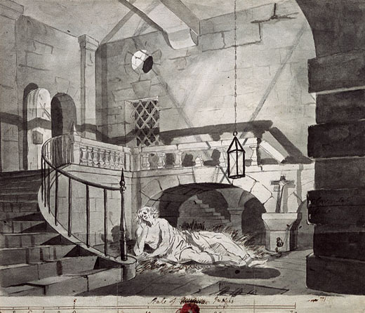 Study by Joseph Wright for the Captive King in 1772 or 1773